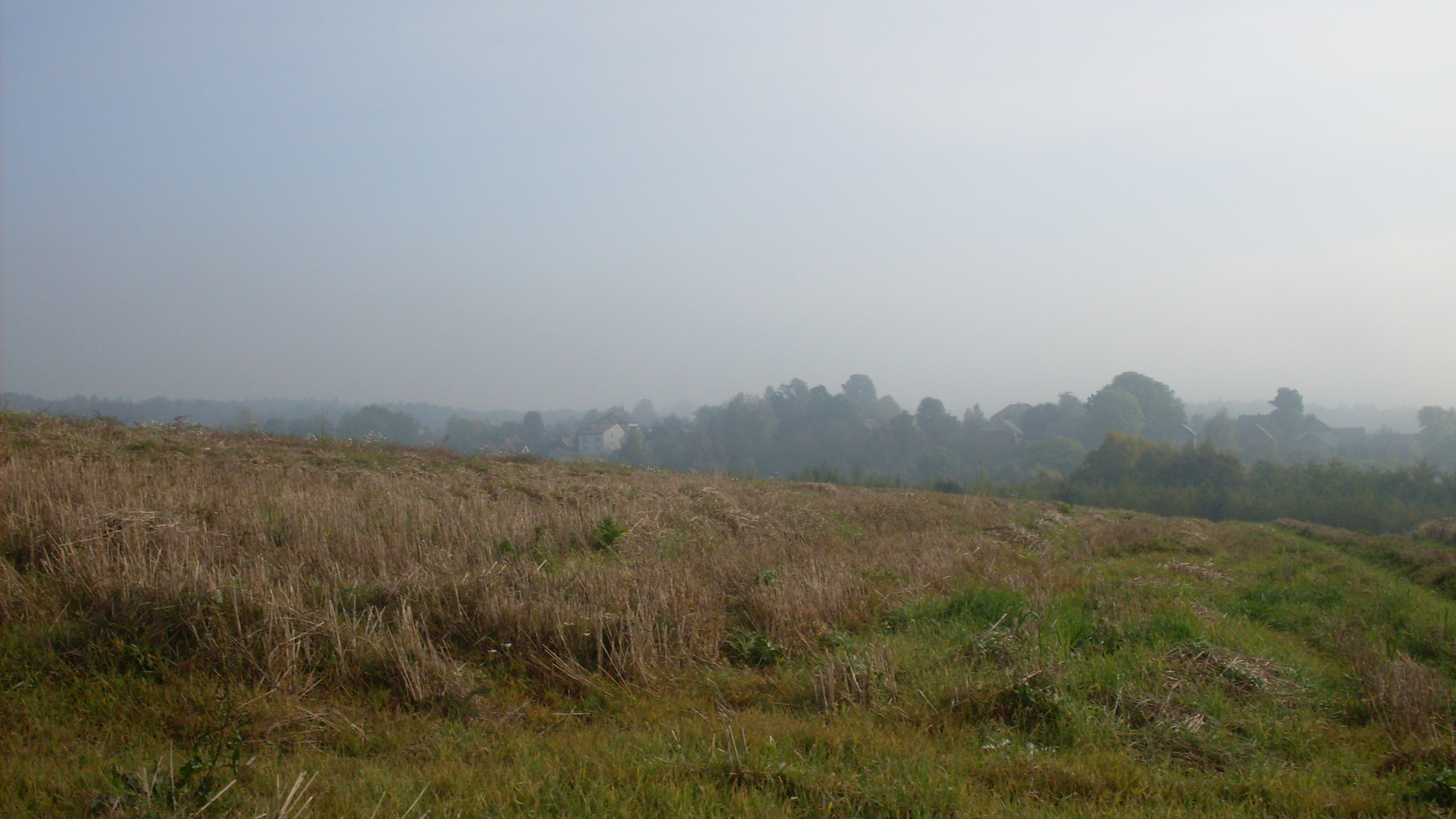 Kleszczów